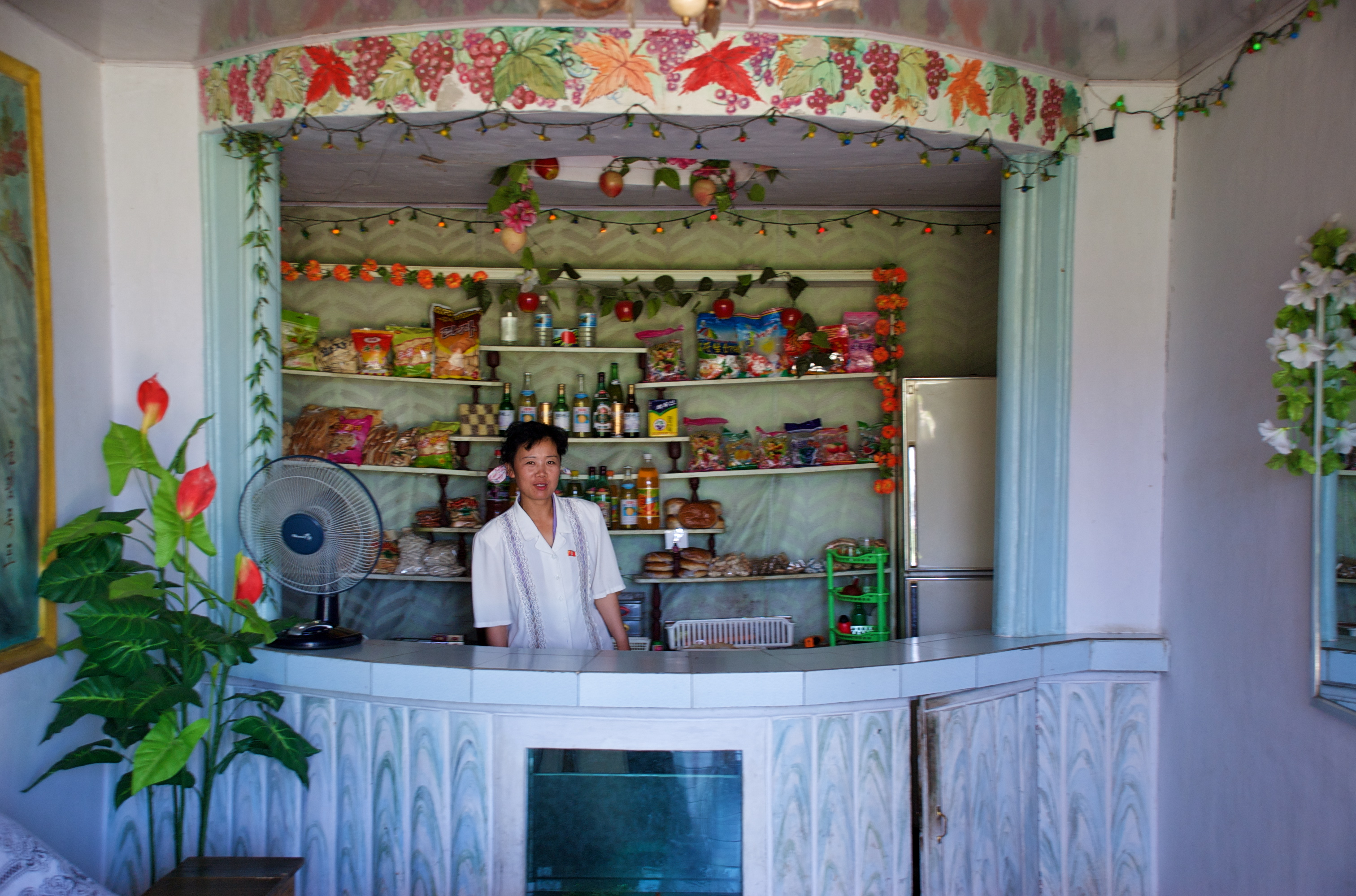 Trip to North Korea in June, 2008